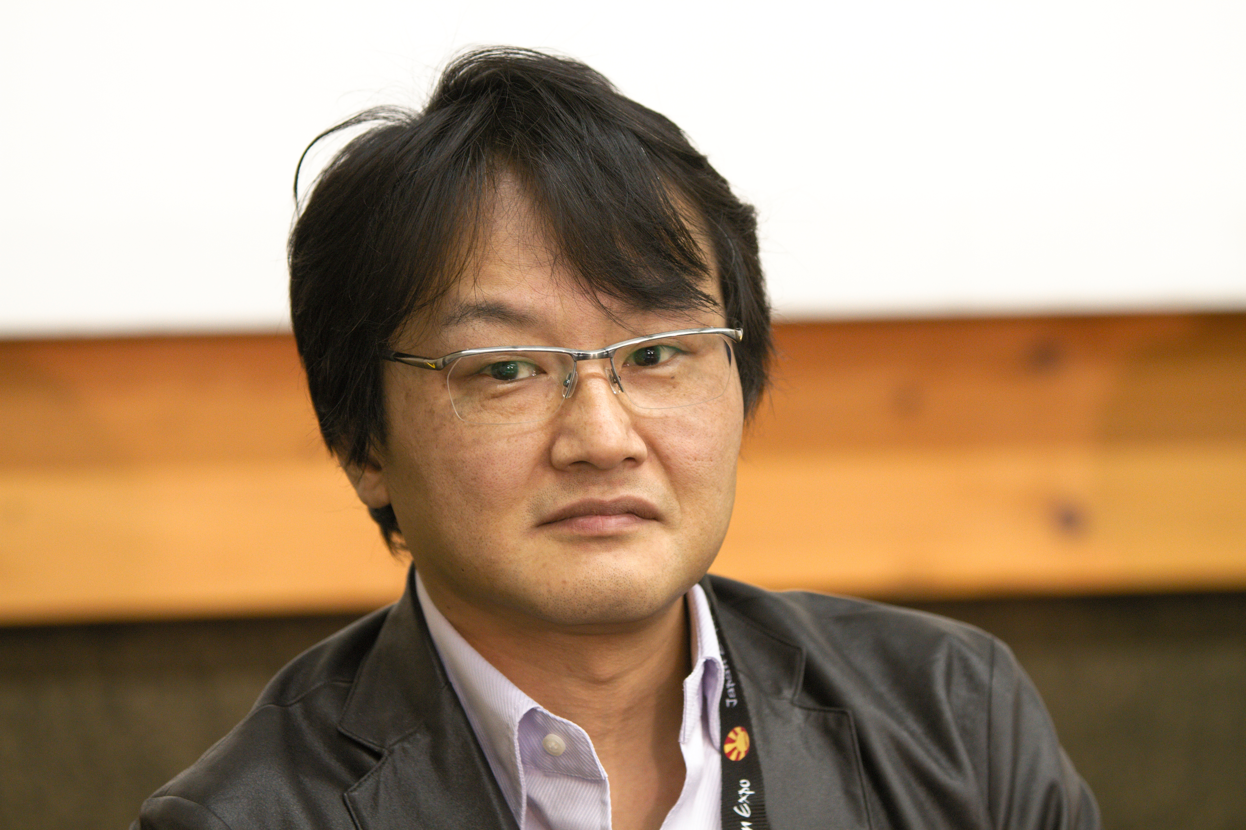 Autograph session with Kazuki Akane at Japan Expo Sud 2010 (Marseille, France).